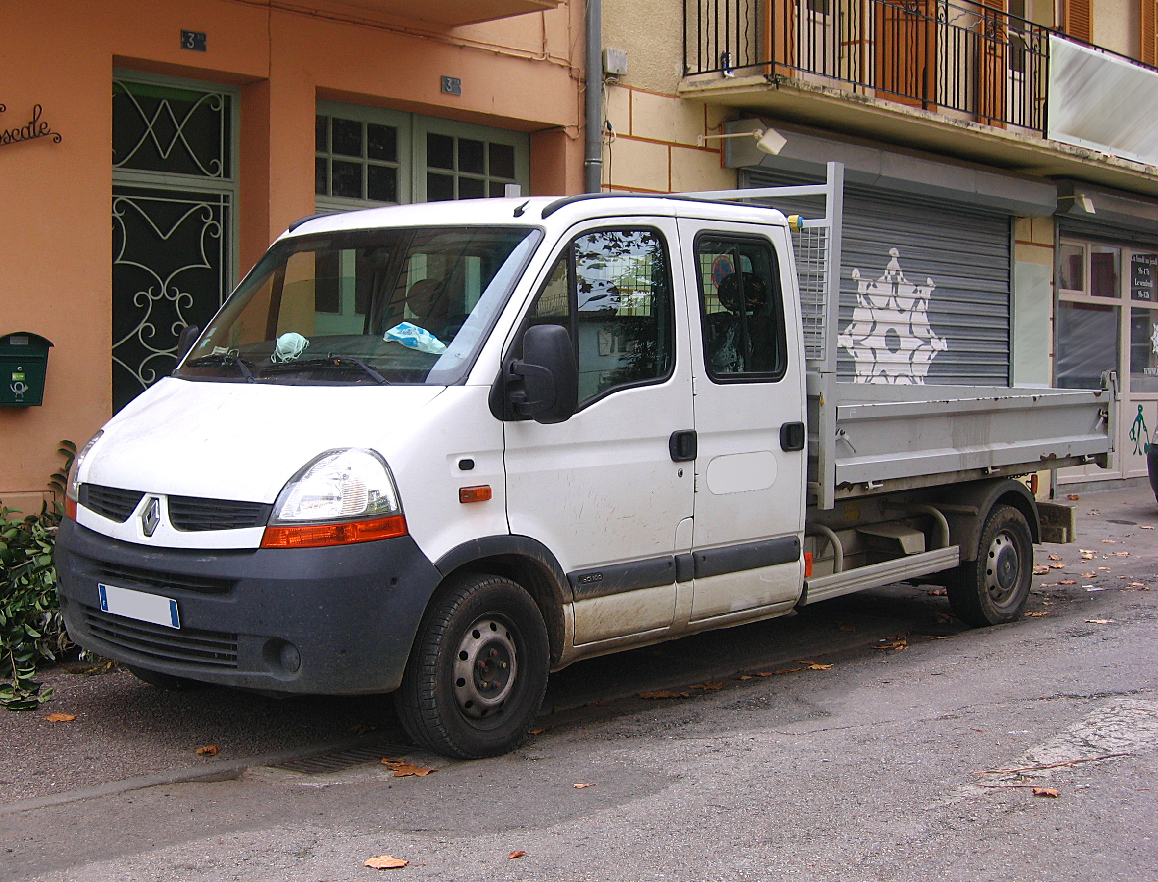 2003-2010 Renault Master Double cab.